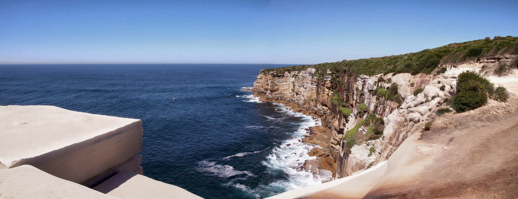 Panorama of Wedding Cake Rock and the surrounding White Cliffs on the Royal National Park's Coast Track, taken by Maurice van Creij and originally uploaded to Panoramio. The photograph depicts a ~120° panorama from the edge of the southern face of Wedding Cake Rock across to the northern face of the cliffs adjacent to its south. The majority of Wedding Cake Rock's monolithic structure is out of view. This photograph was edited in GIMP 2.10.6, with brightness and colour contrast significantly decreased, colour saturation decreased, and black point exposure increased, in order to emulate a more natural view of the area depicted, as it would appear to the human eye.